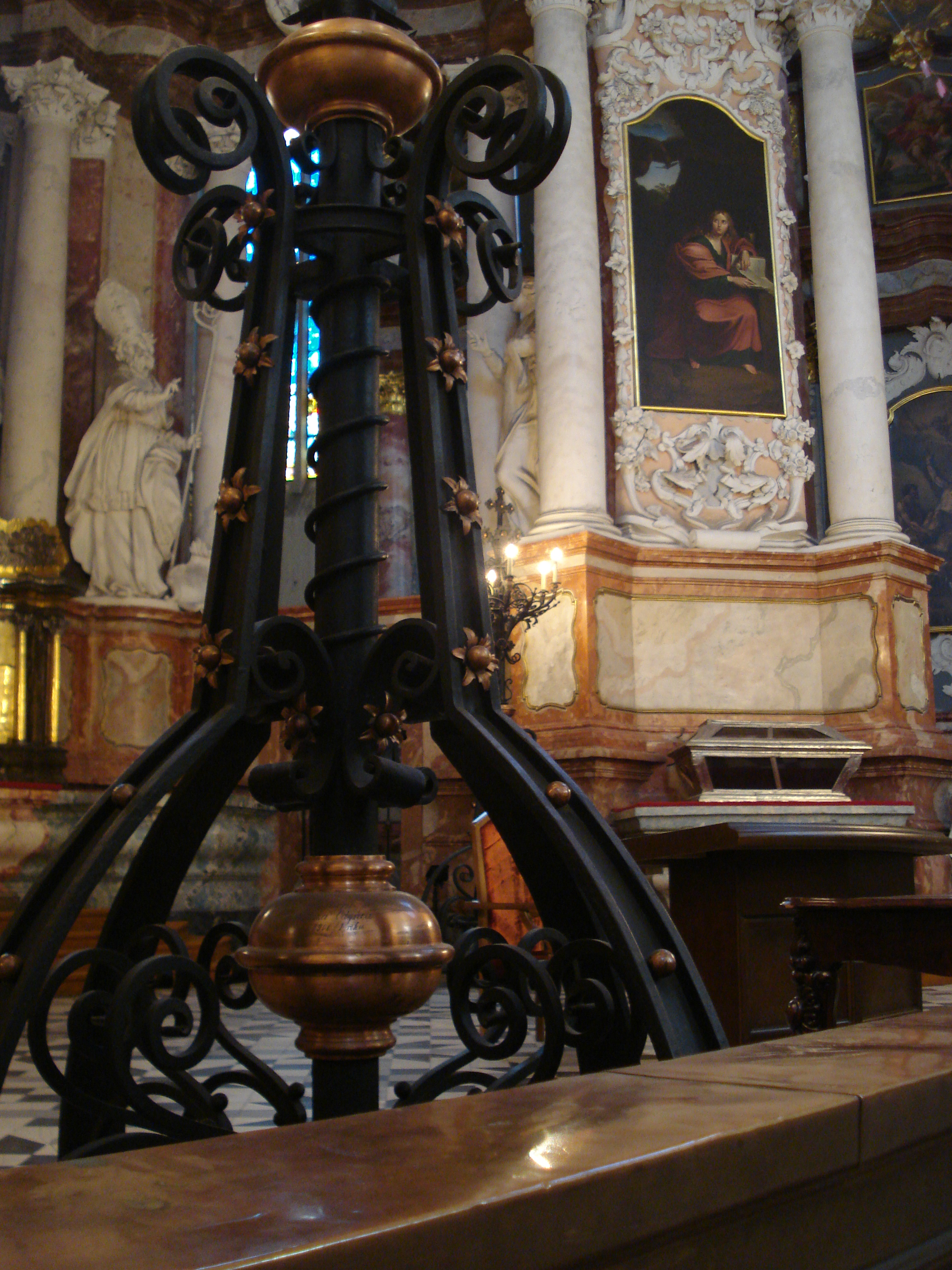 The Church of St. Johns (Vilnius)